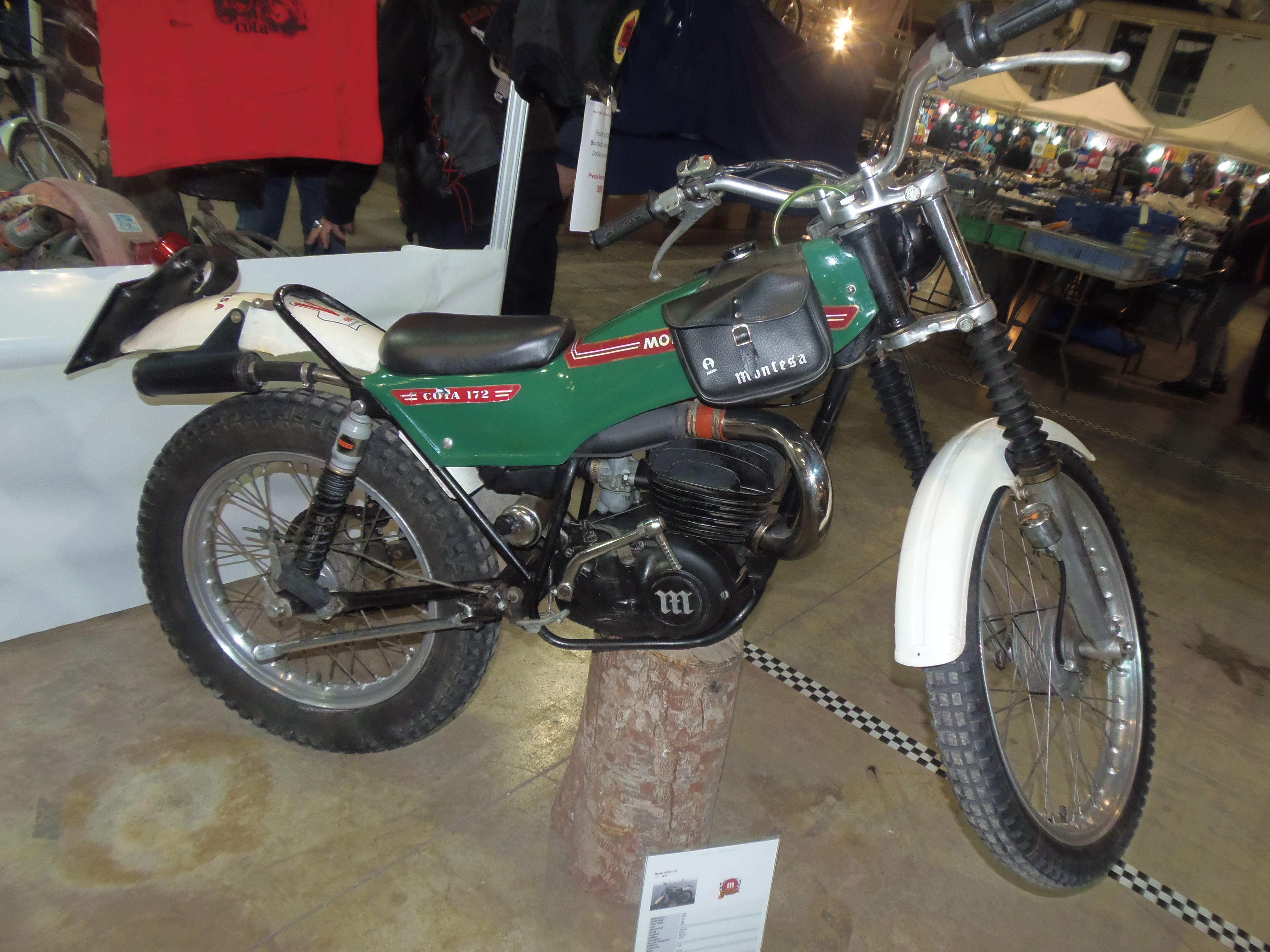 Montesa Cota 172 in green, 1977